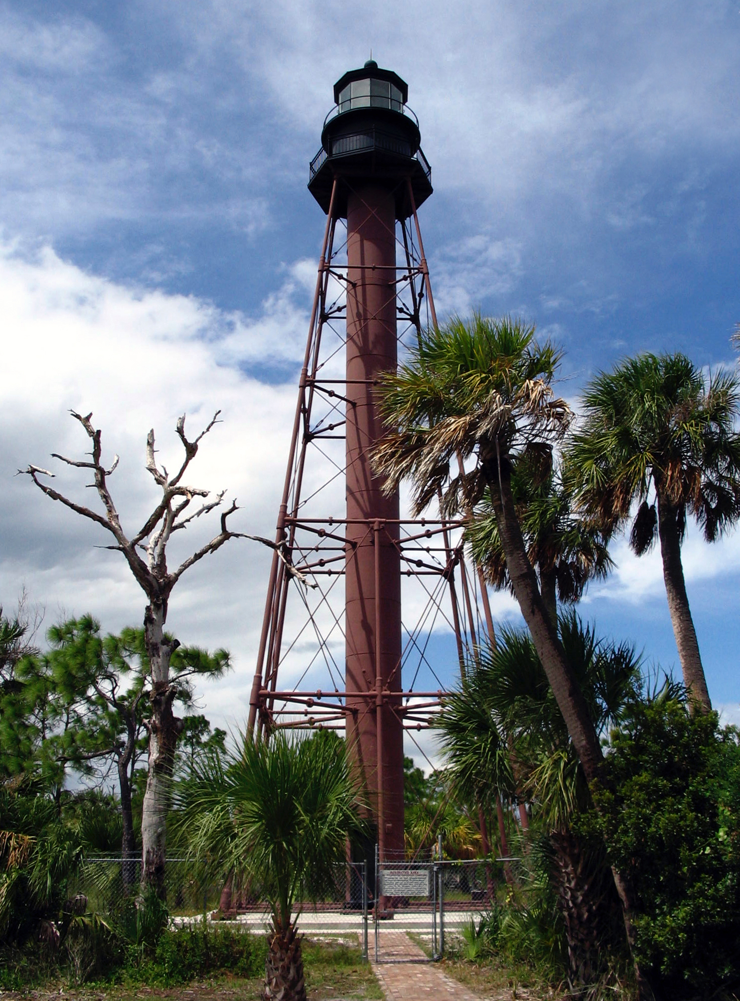 The Anclote Key Lighthouse, built in 1887, stands at the southern tip of Anclote Key at the mouth of the Anclote River. A reproduction 4th order Fresnel lens was installed by the Park Service and the Coast Guard in 2003. The light emits four flashes every 30 seconds with an estimated visibility of five miles.